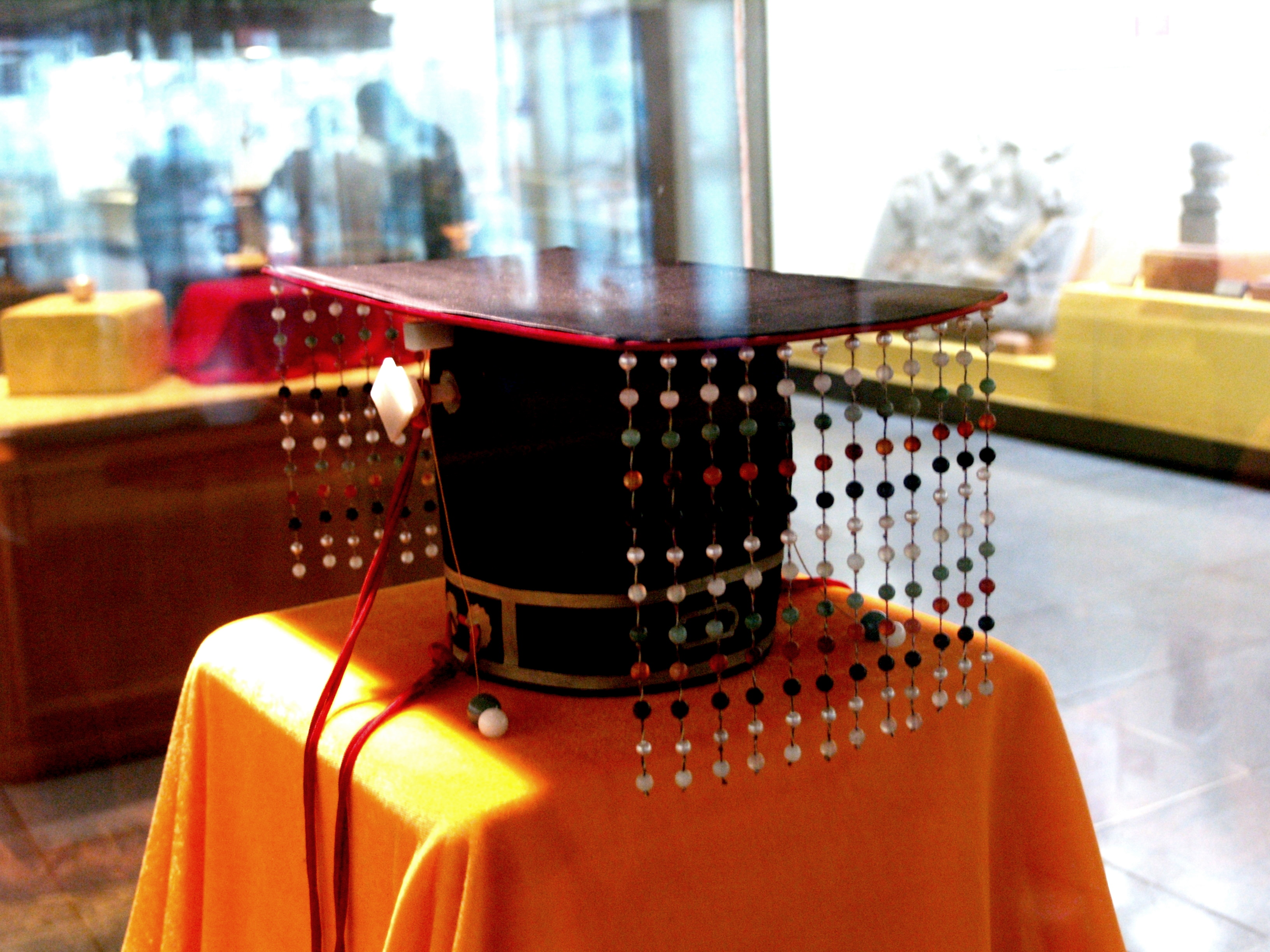 Mian (冕), the traditional imperial crown of China. Displayed in the Dingling Museum of the Ming Tombs